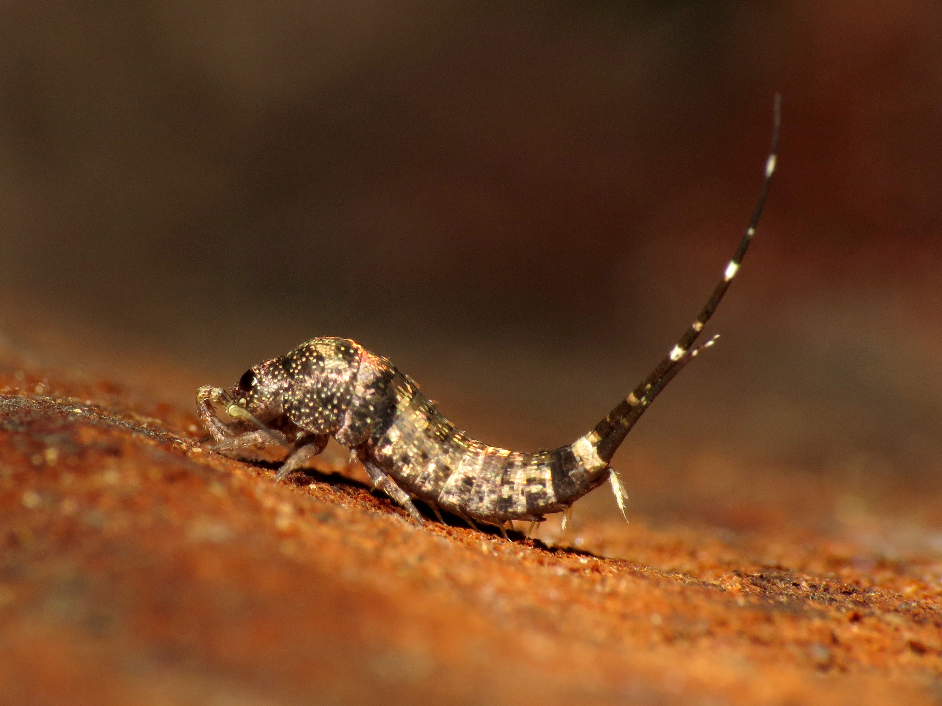 Archaeognatha sp. Rock Creek Park, Washington, DC, USA.